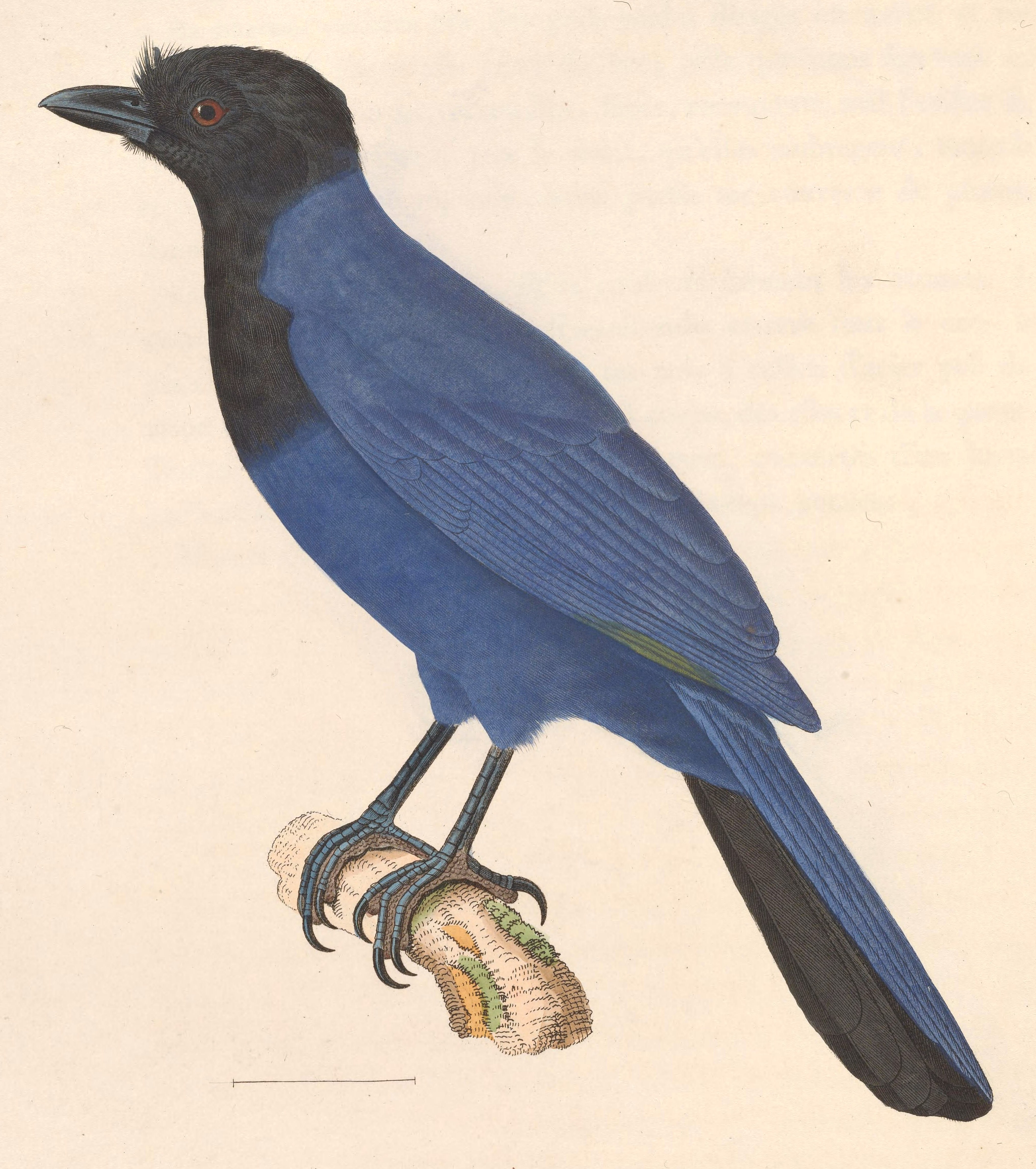 « Corvus azureus » = Cyanocorax cyanomelas (Purplish Jay)